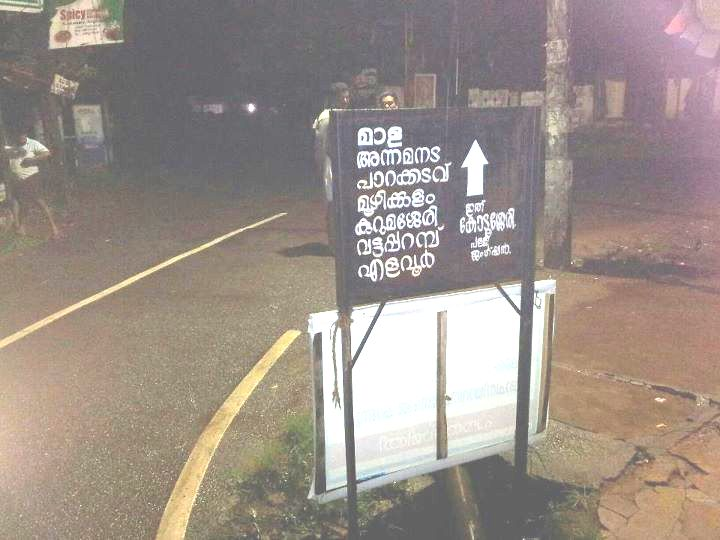 കോടുശ്ശേരി ജംക്ഷൻ സ്ഥാപിച്ചിരിക്കുന്ന ചൂണ്ടുപലക